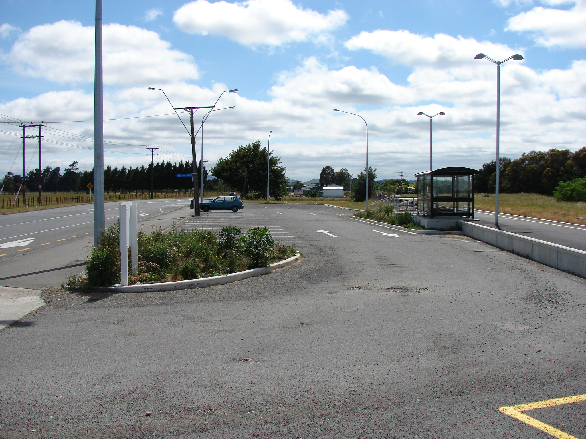 Solway railway station carpark. Photographed by Matthew25187 on 2007-12-15.